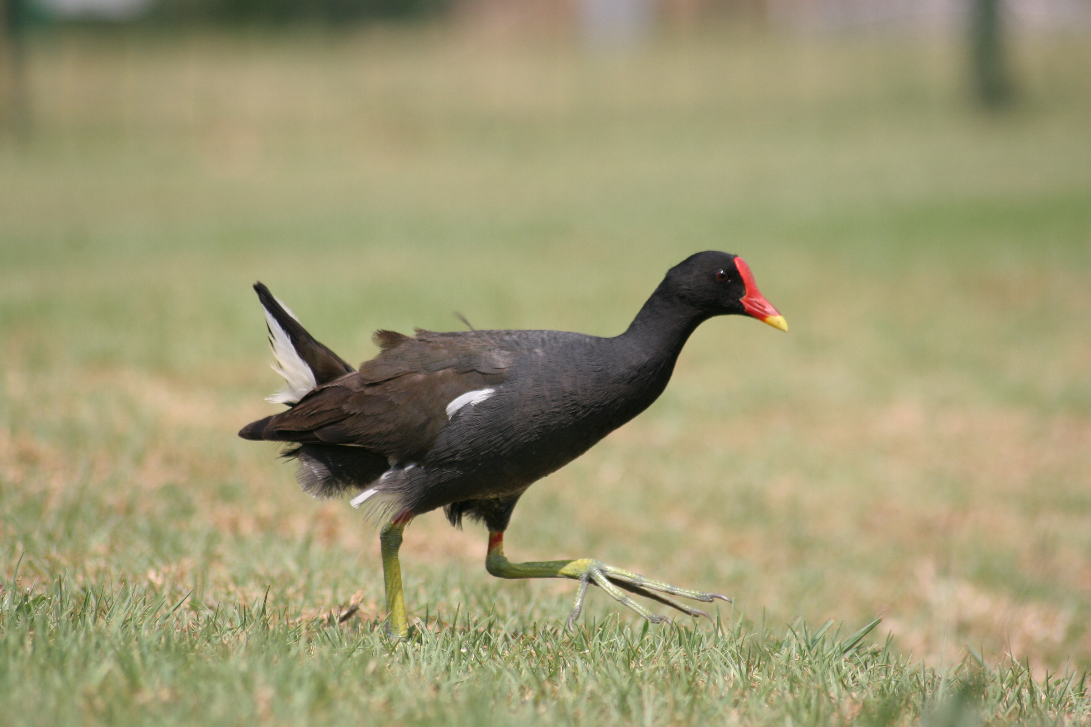 Gallinula chloropus meridionalis, Modderfontein, South Africa